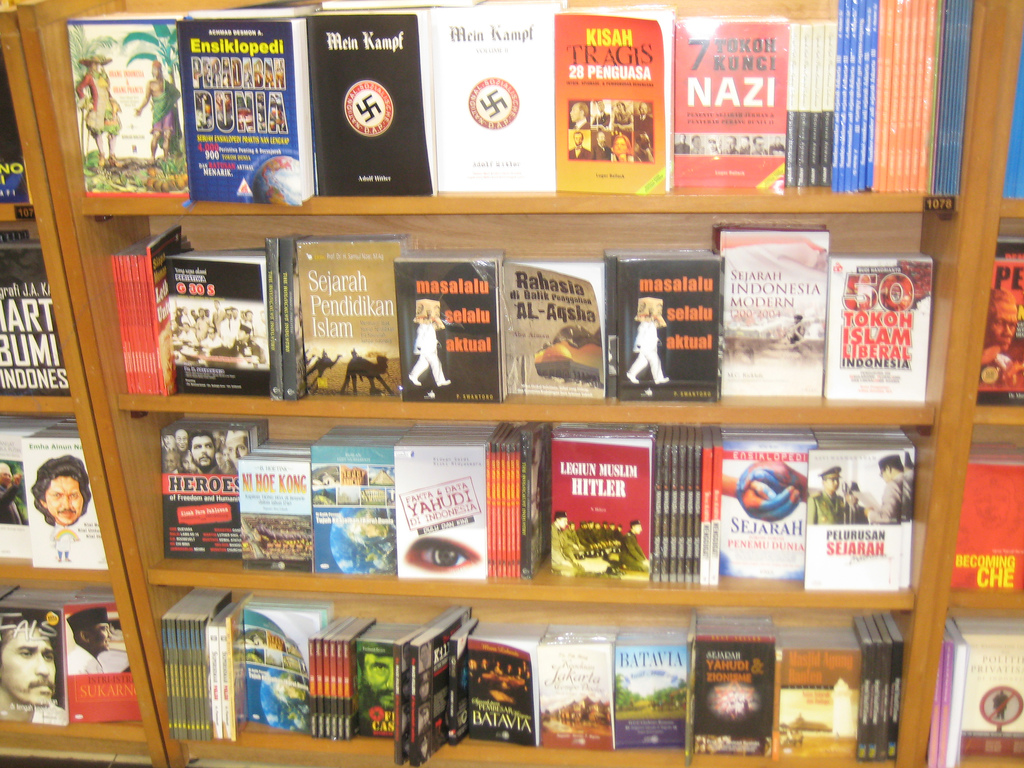 Copies of Hitler's "Mein Kampf" in a bookstore in Indonesia